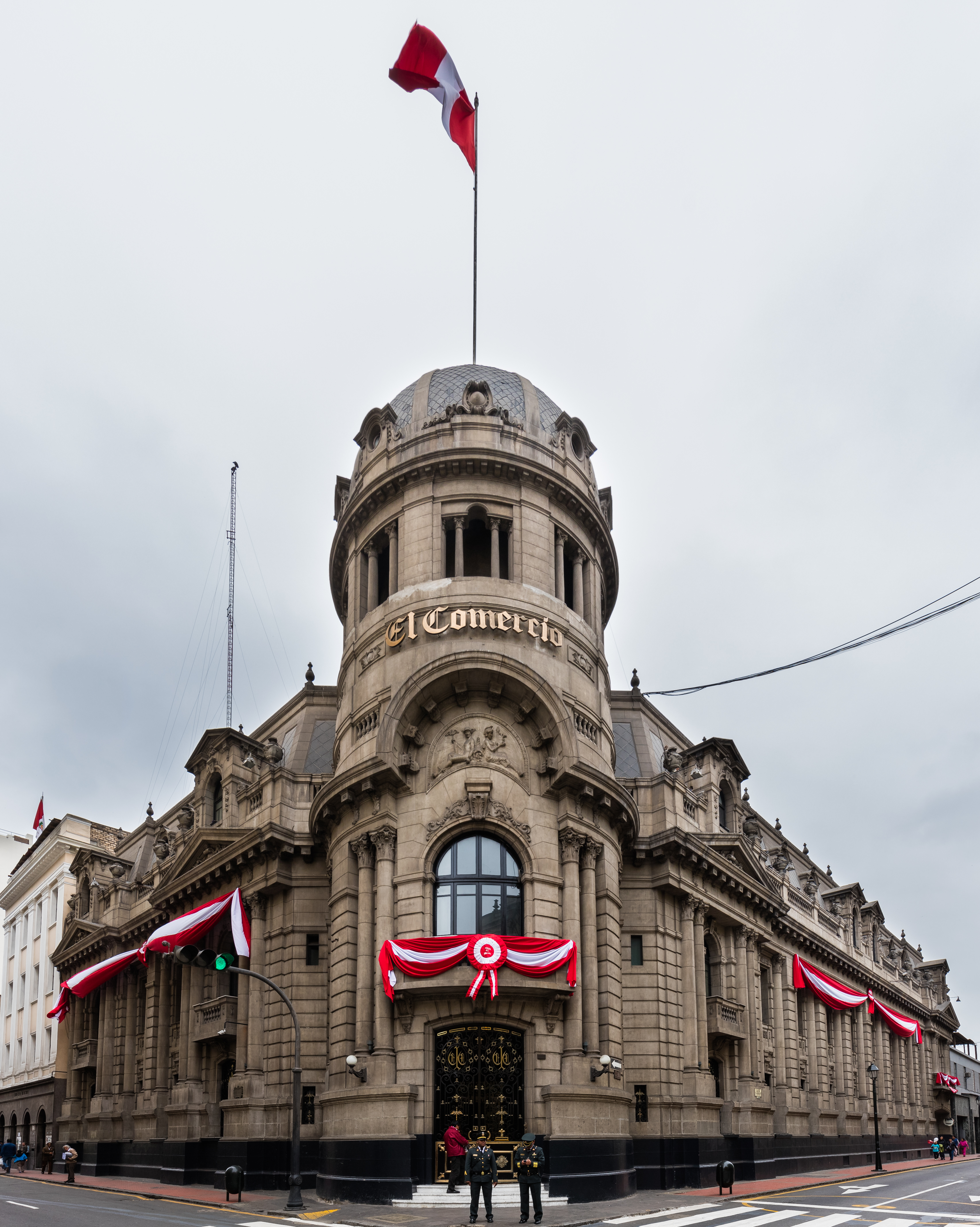 Headquarters of the newspaper El Comercio, Lima, Peru